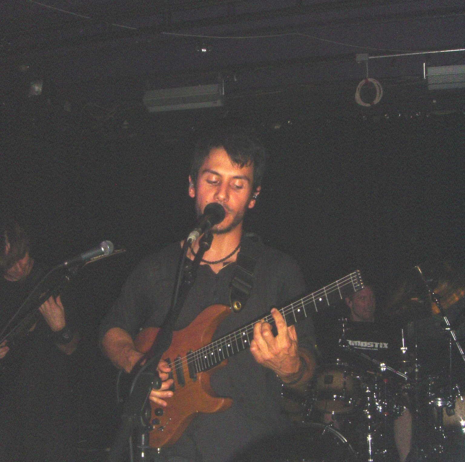 Cynic - Paul Masvidal graphic modifications by DingirXul